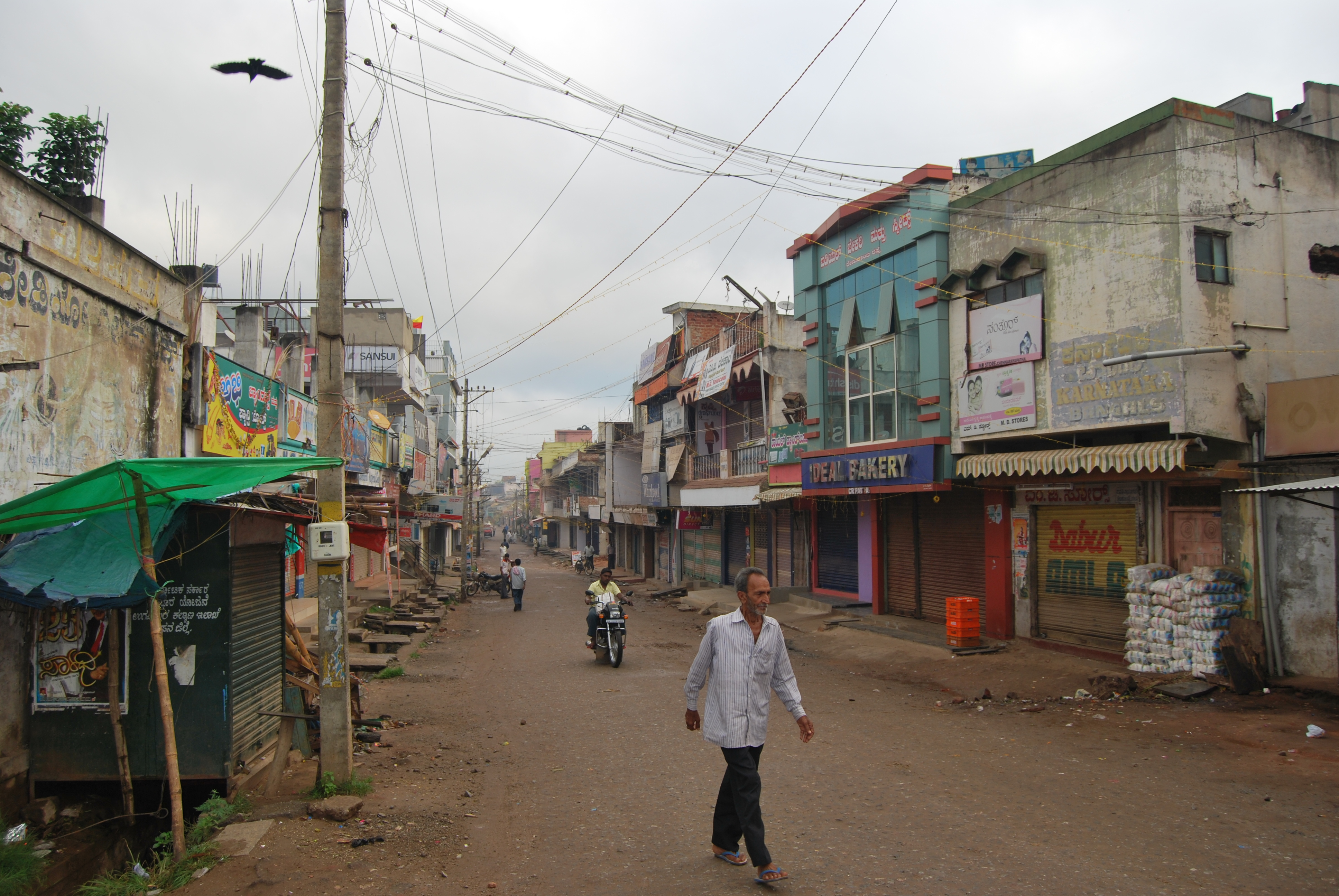 Renukamba Road